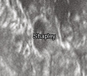 Shapley lunar crater as seen from Earth with satellite craters labeled